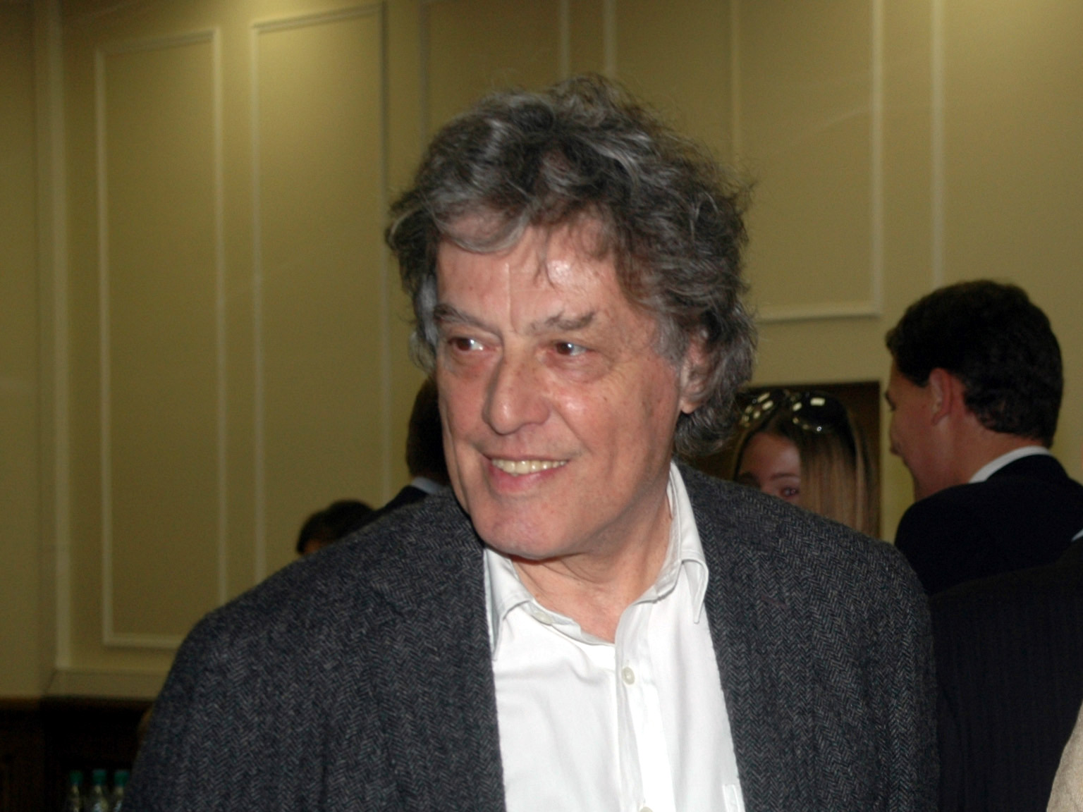 Tom Stoppard on a reception in honour of the premiere of "The Coast of Utopia" in Russia